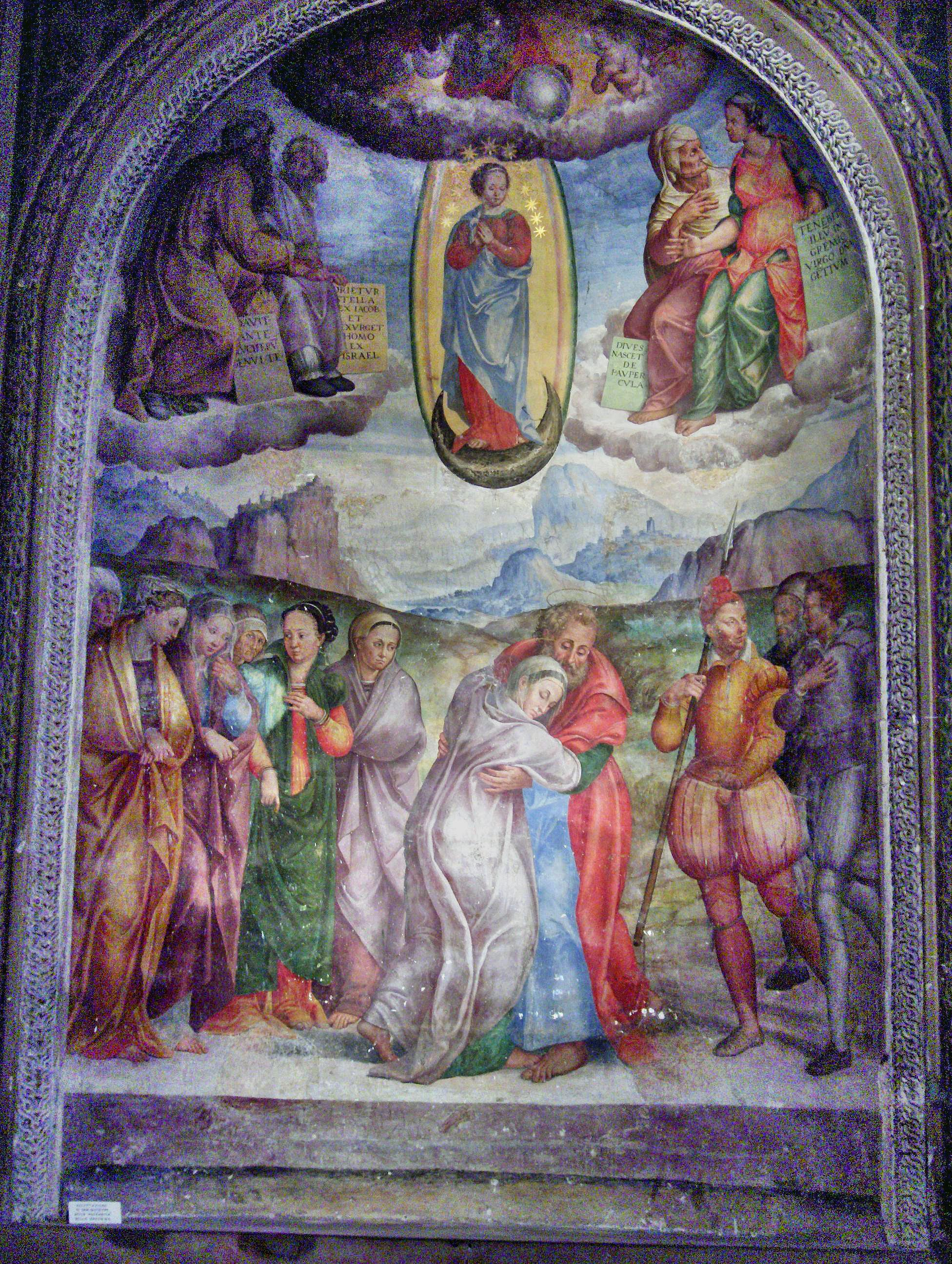 "San Gioacchino meets St. Anna ", fresco attributed to Dono Doni (1565); in the lunette: Immaculate Conception; in the church of S. Andrea, Spello, Italy.